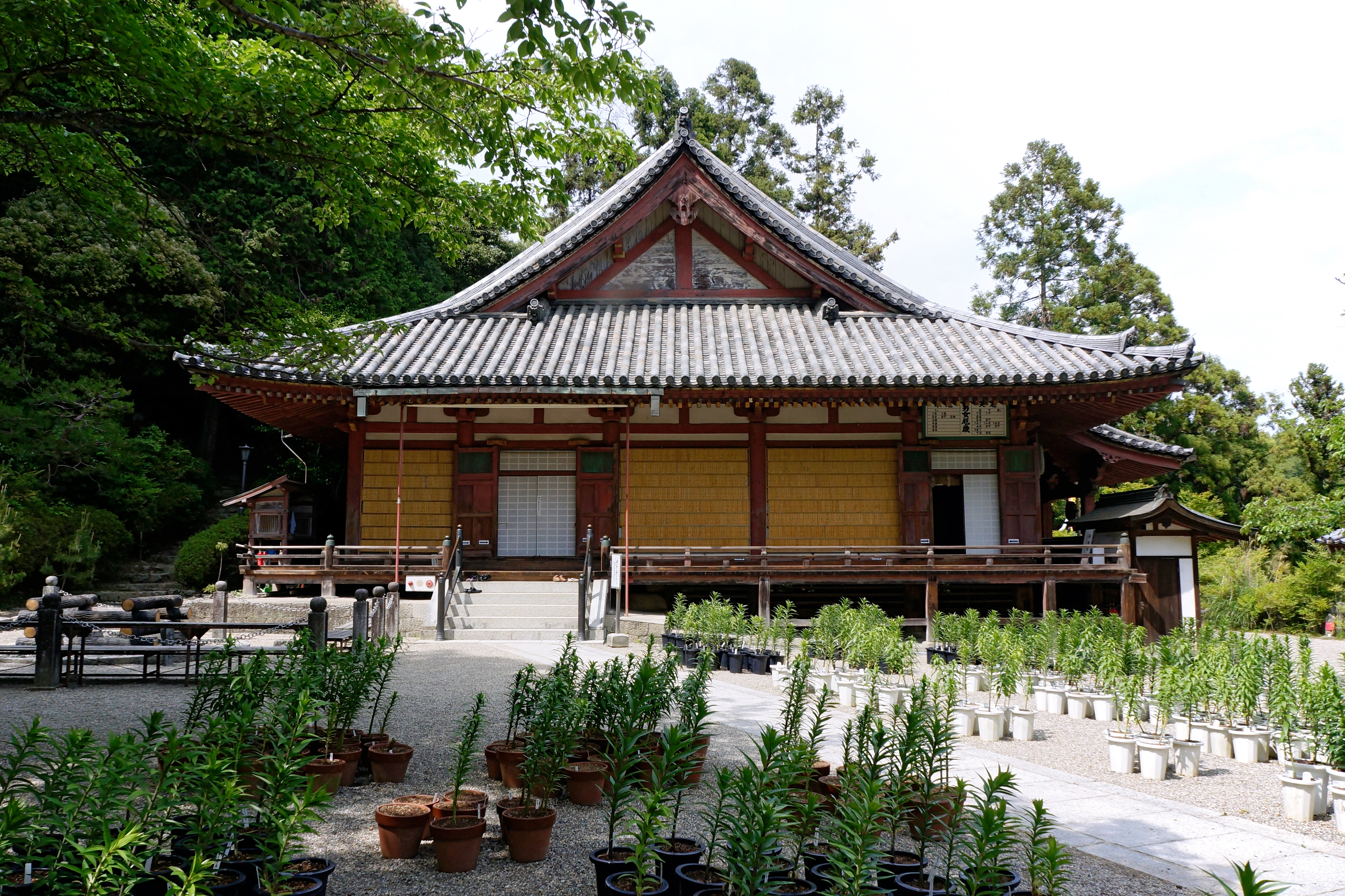 Matsuo-dera in Yamatokoriyama, Nara prefecture, Japan.